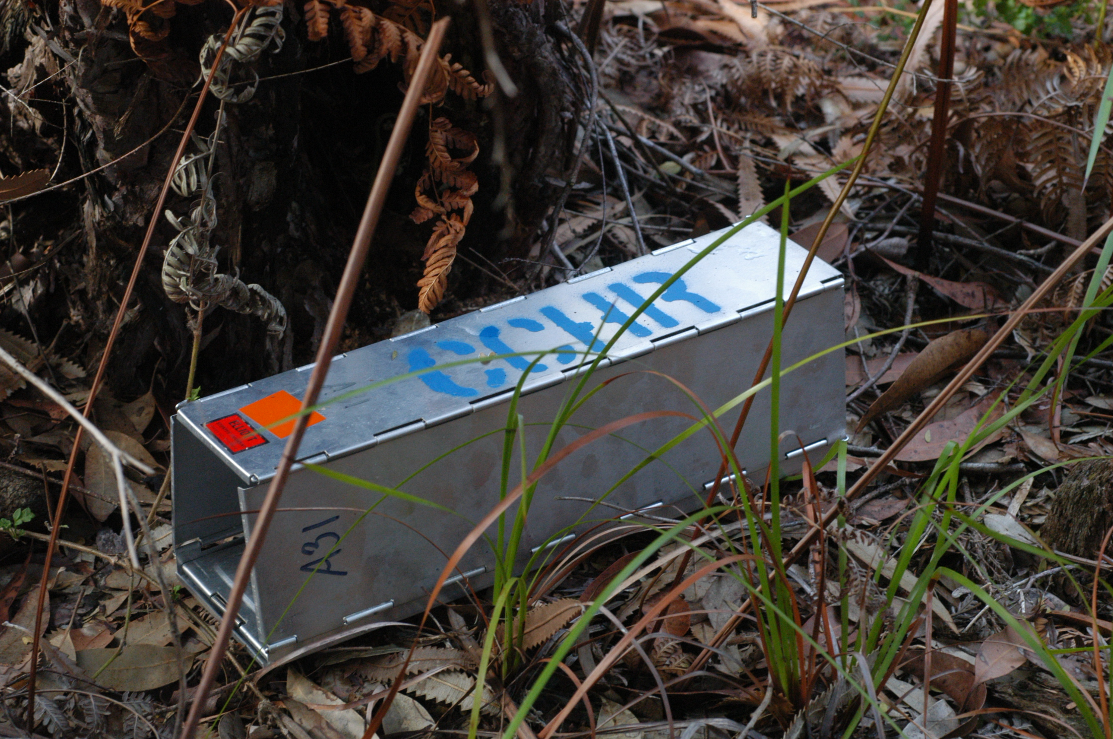 Self folding aluminium trap used to catch animals on the ground and keep them alive when captured.